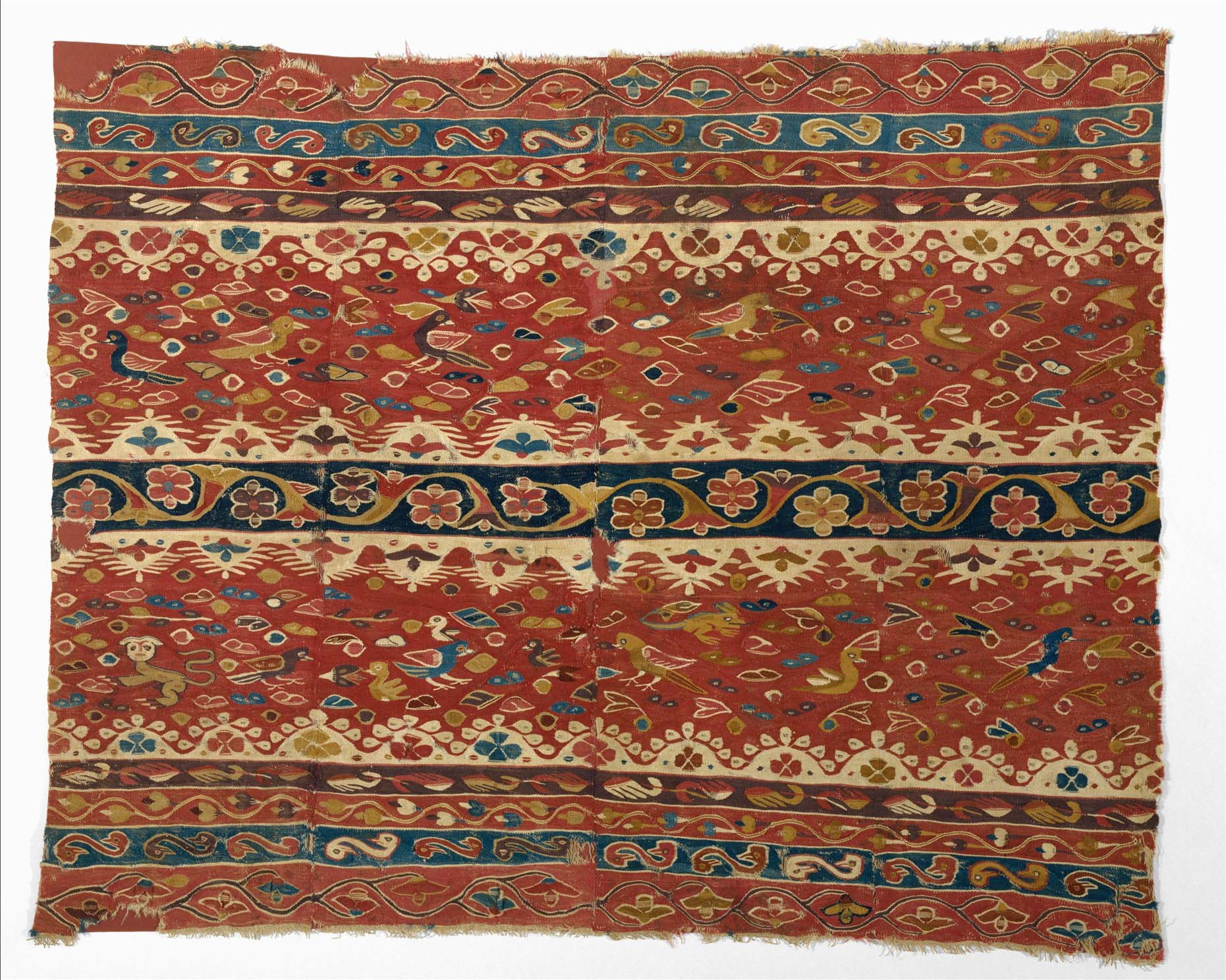 17th-18th century, from Peru. Camelid hair. 90.2 x 110.2 cm. Indigenous women in the Andes have continued to wear their traditional mantles, fastened by silver shawl pins, even in modern times. Although colonial-era weavers preserved the art of Inkan tapestry technique, they incorporated many European decorative motifs into their designs. The wearing of copious quantities of lace imported from Spain was one of the features most frequently noted in contemporary colonial descriptions of well-to-do Peruvians' attire; the passion for this deluxe sartorial embellishment was echoed in the native tapestry weavers' ornamental vocabulary, as seen in the lace-patterned bands that define the horizontal registers of this shawl.